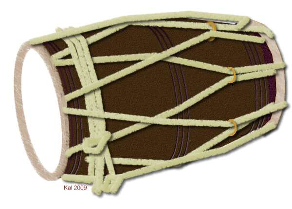 North Indian hand drum